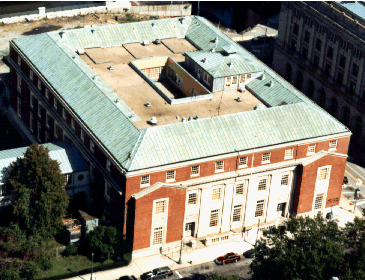 Aerial view of the John O. Pastore Federal Building in Providence, Rhode Island.